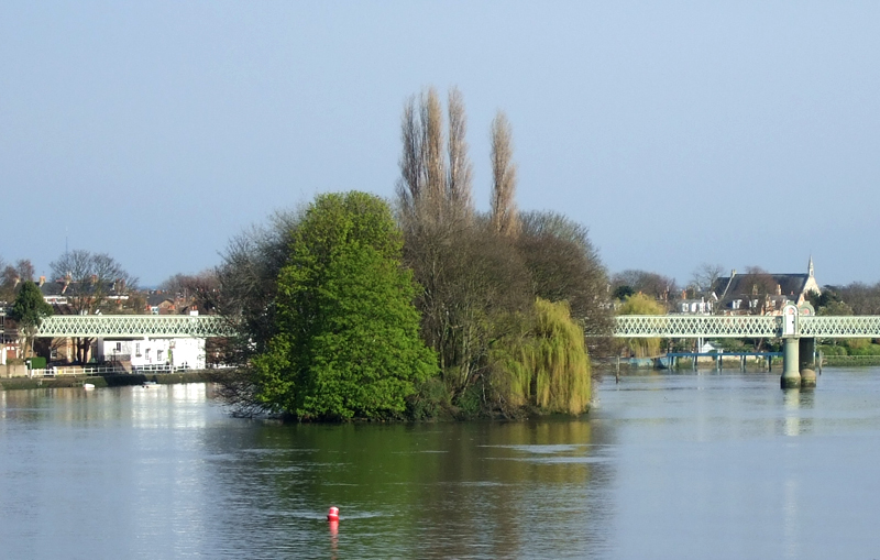 View looking downstream from Kew Bridge